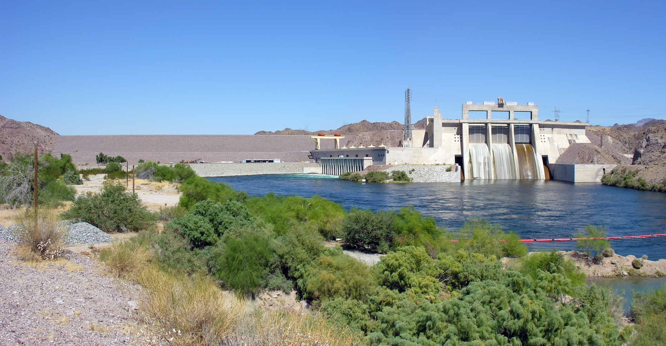 This is a picture of Davis Dam, which is a dam on the Colorado River that forms Lake Mohave. The river serves as the border between Arizona and Nevada at that point, so one side is in each state. The picture was taken by me on September 16, 2006. I give permission for the picture to be used with attribution under the GFDL and Creative Commons.